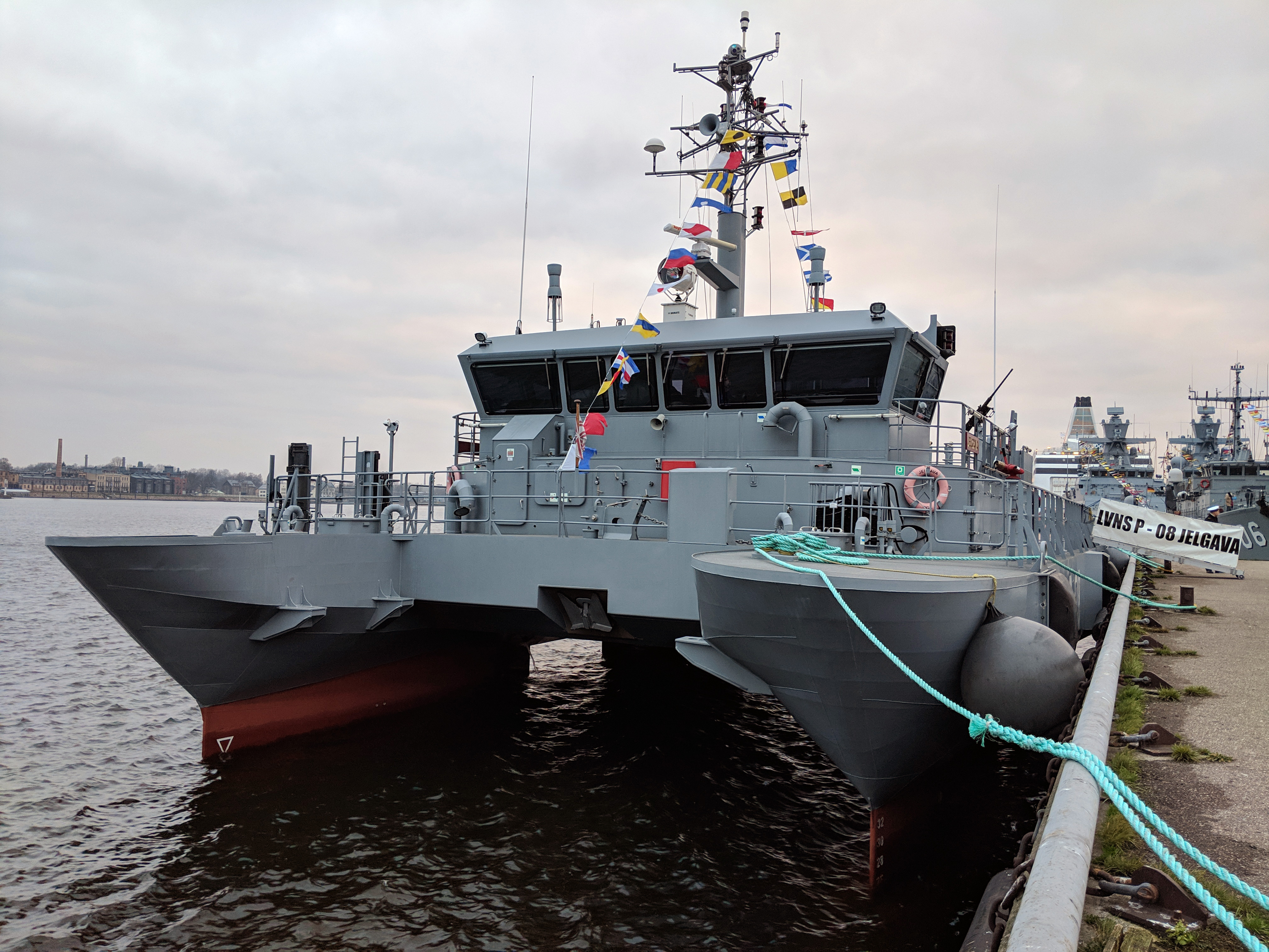 SWATH vessel, Skrunda-class LVNS Jelgava P-08 of the Latvian navy.